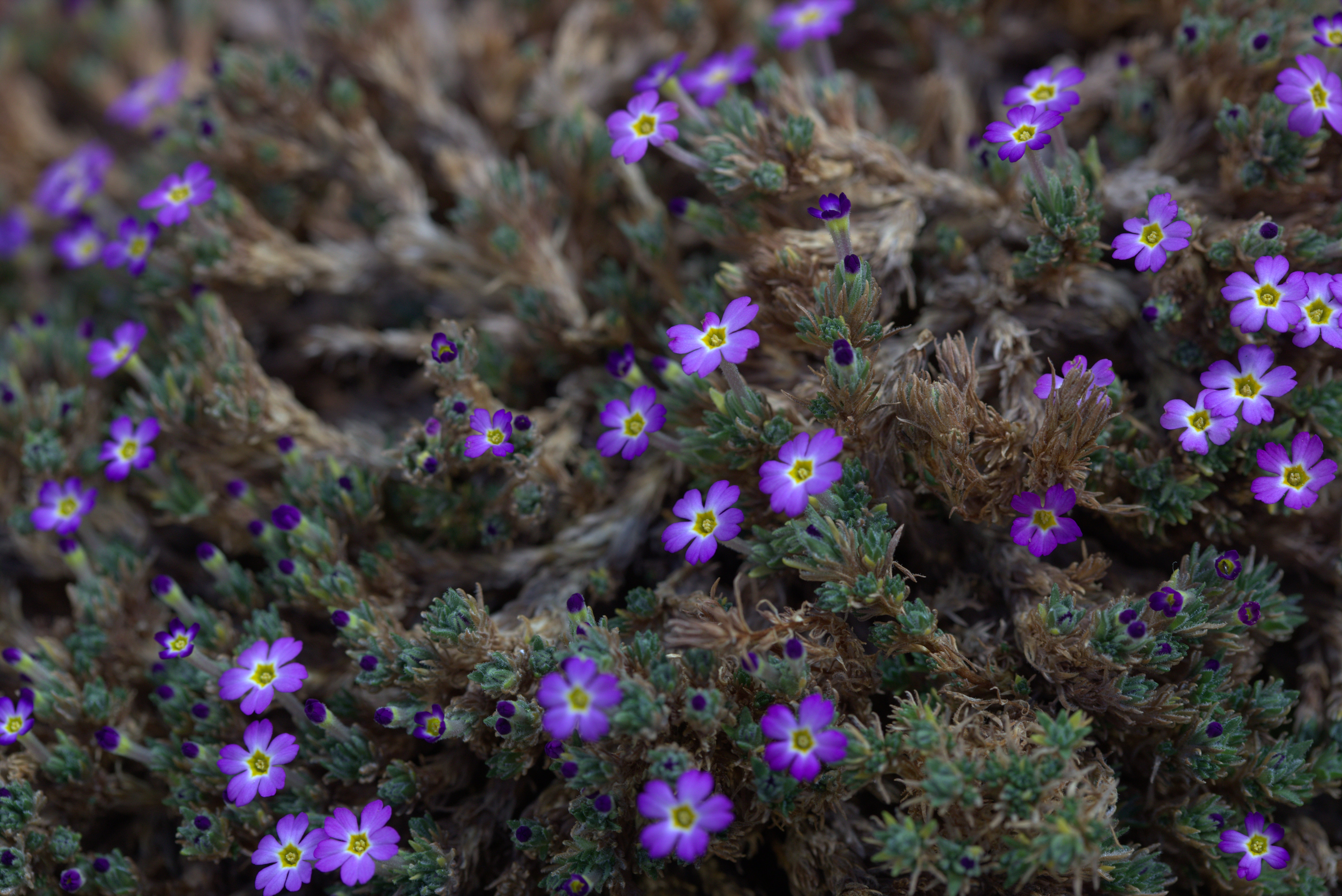 Dionysia khatamii at Gothenburg Botanical Garden in 2015. Plant id: 2002-2200 c W --T4Z 013